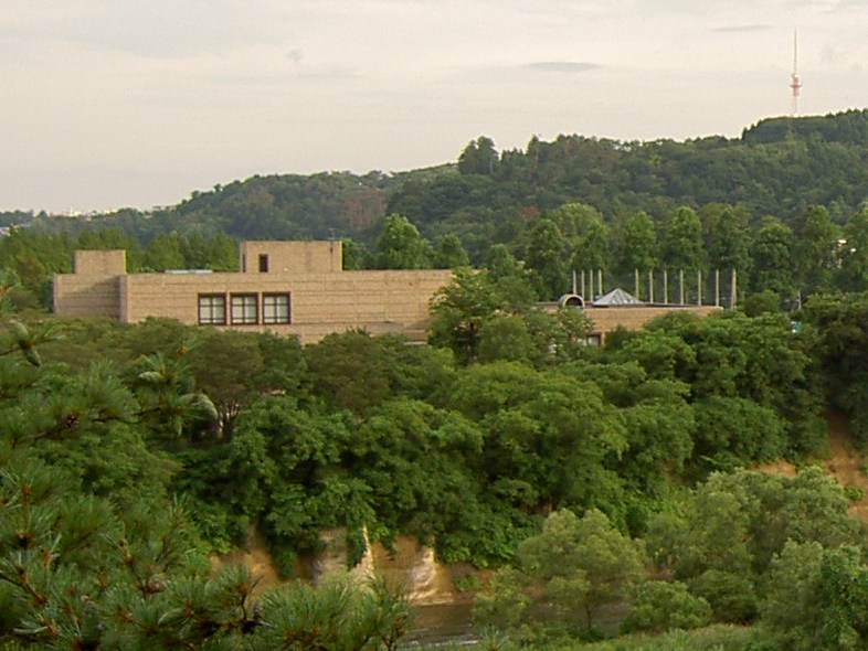 The Miyagi Museum of Art photographed from across the Hirose-gawa river. This museum is located in Sendai, Japan